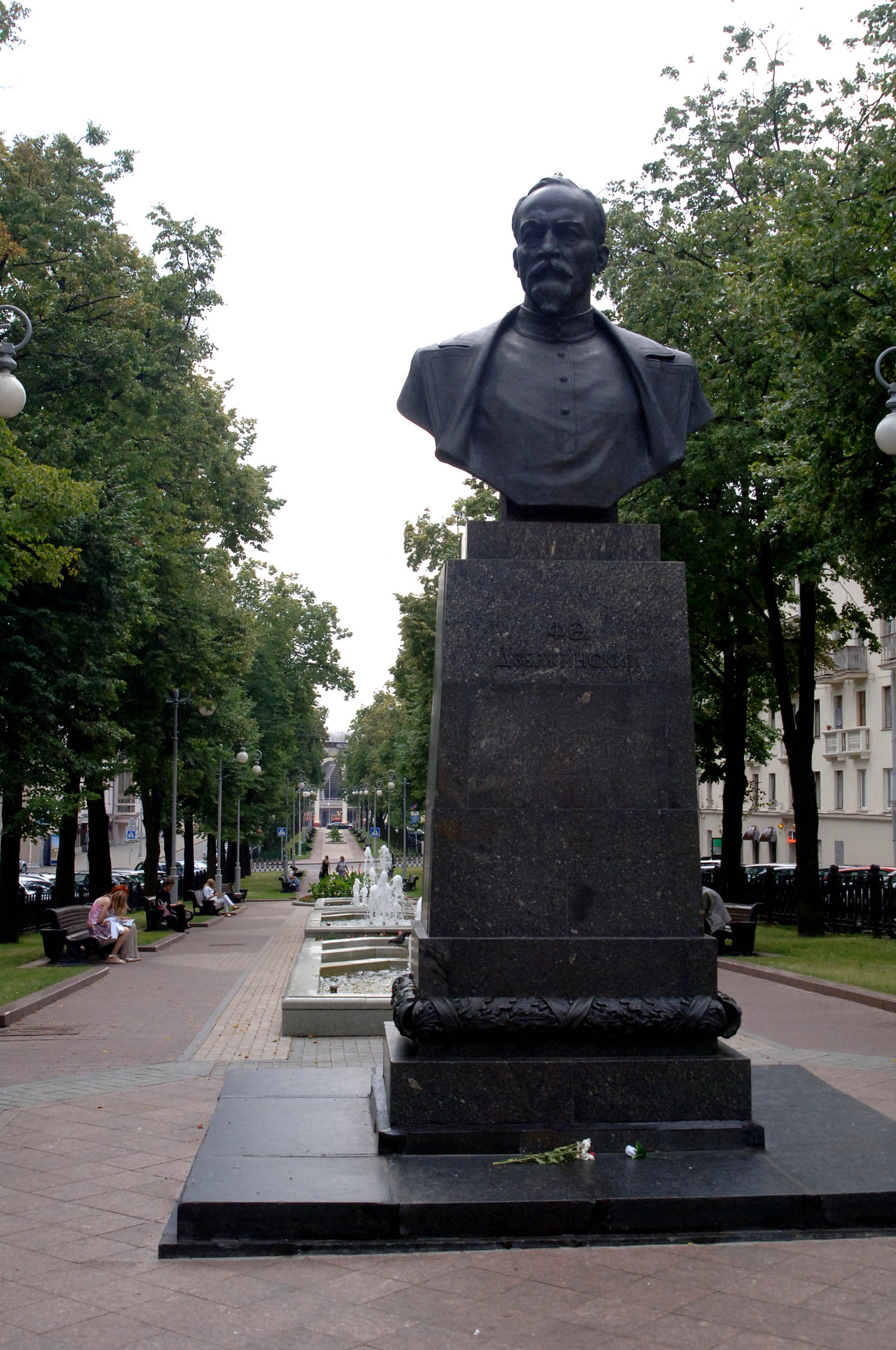 FELIX DZERZHINSKY WAS BORN IN BELARUS. HE WAS A TERROR MONGER AND FOUNDER OF THE CHEKA, PREDECESSOR OF THE KGB. THE TOPPLING OF HIS STATUE IN MOSCOW WAS A DEFINING MOMENT IN THE BREAKUP OF THE SOVIET UNION AND IN MINSK THIS IS ONE OF THE FEW STATUES REMAINING IN THE WORLD TO THIS MAN RESPONSIBLE FOR MUCH BLOODSHED